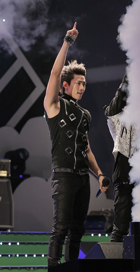 Taecyeon in July 2011